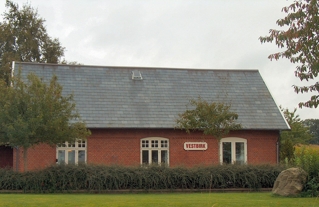 Former Vestbirk station seen from the nature path Horsens-Silkeborg